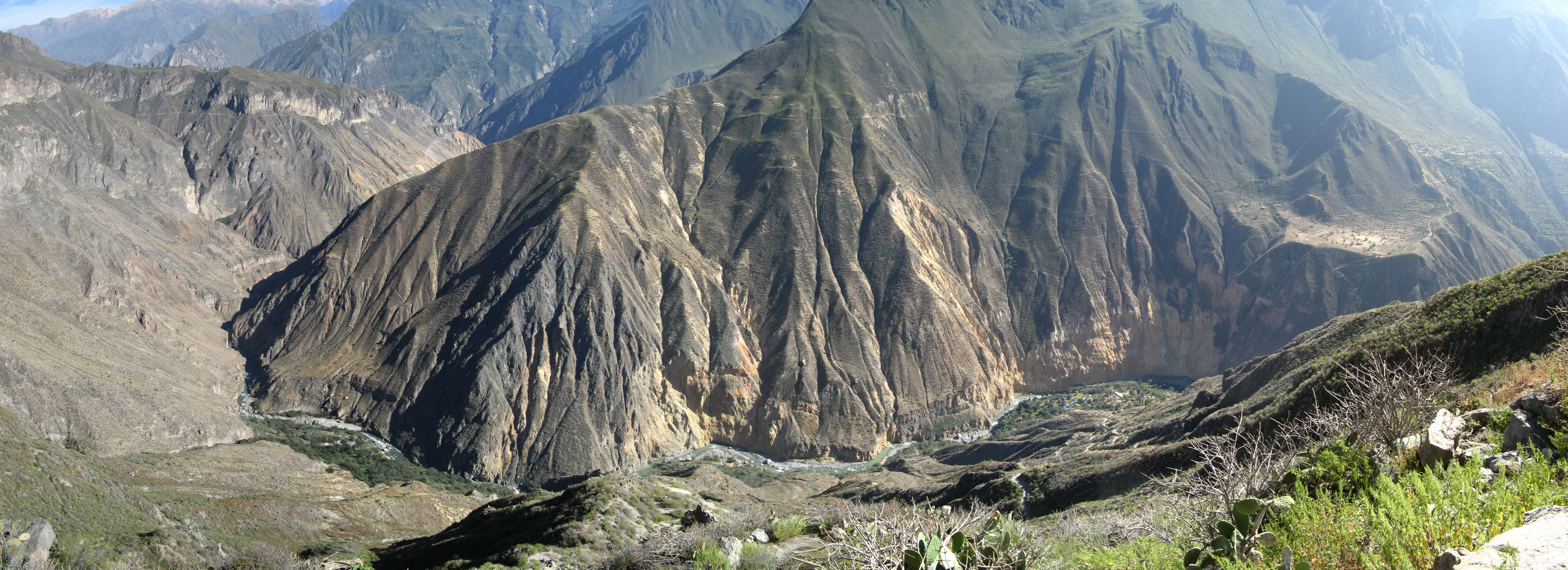 Colca Valley, view from the path from Cabanaconde to Sangalle (Oasis)